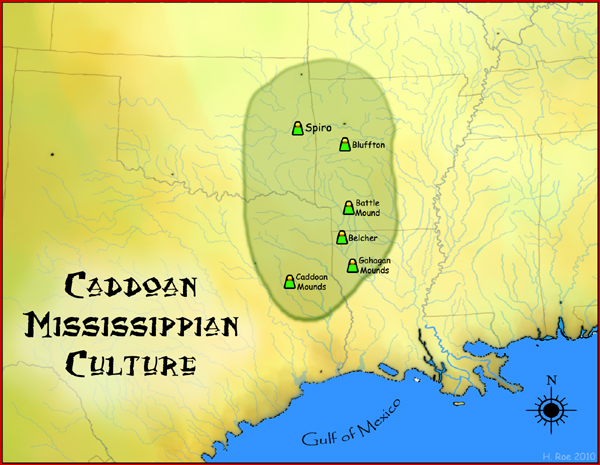 A map showing the geographical extent of the Caddoan Mississippian culture of prehistoric southeastern North America and some important sites.